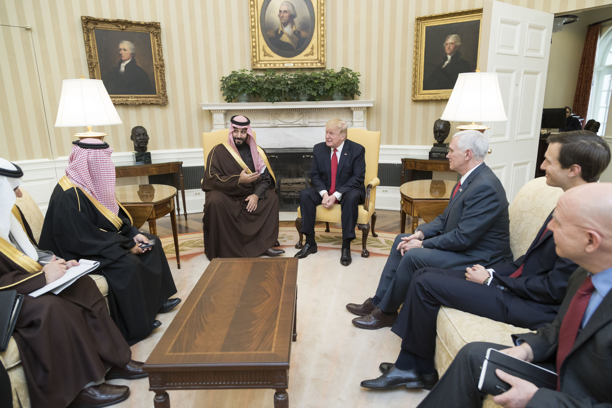 President Donald Trump meets with Mohammed bin Salman bin Abdulaziz Al Saud, Deputy Crown Prince of Saudi Arabia, and members of his delegation, Tuesday, March 14, 2017, in the Oval Office of the White House in Washington, D.C. (Official White House Photo by Shealah Craighead)